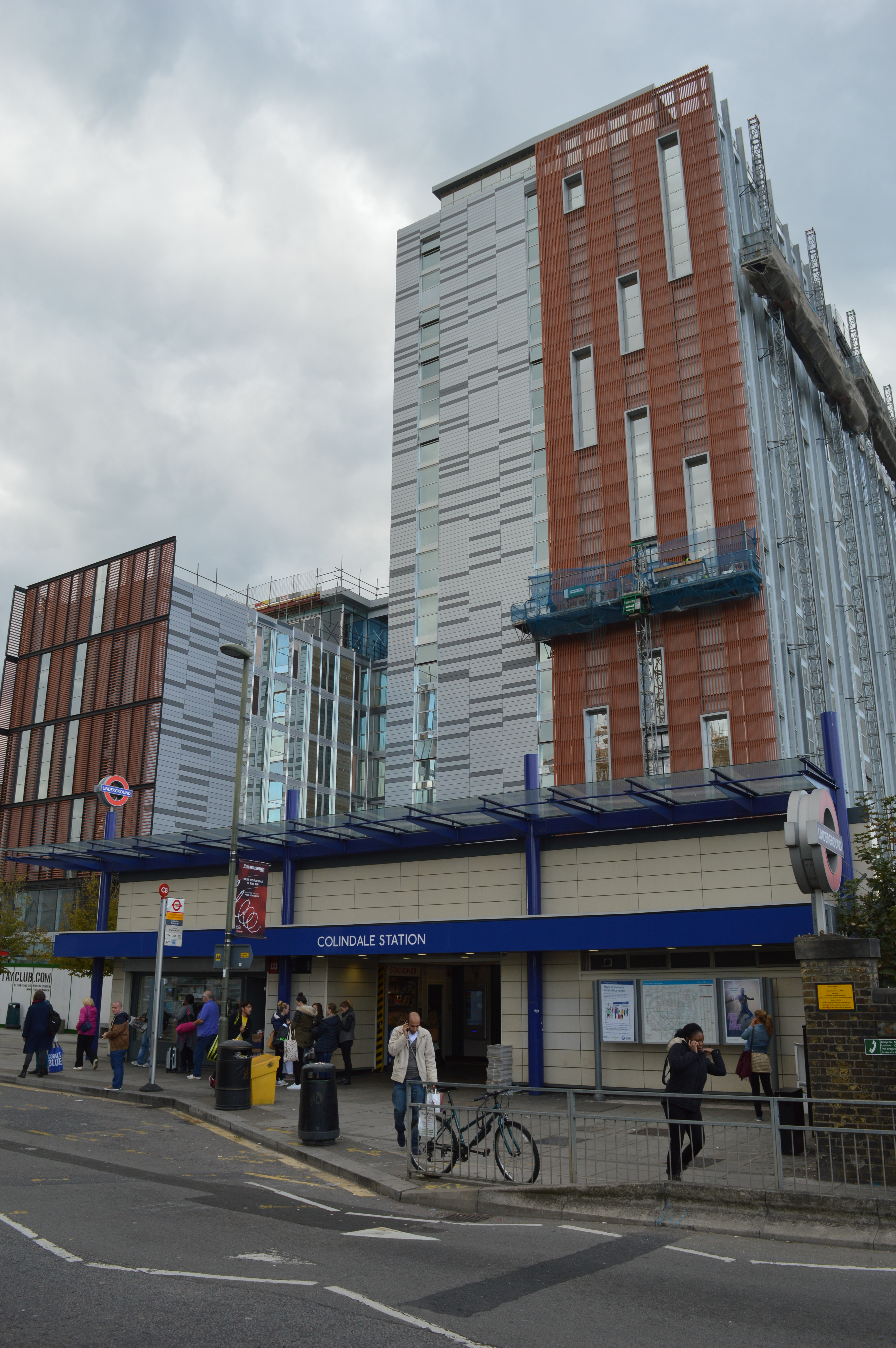 The entrance of Colindale Underground Station with buildings under construction above.